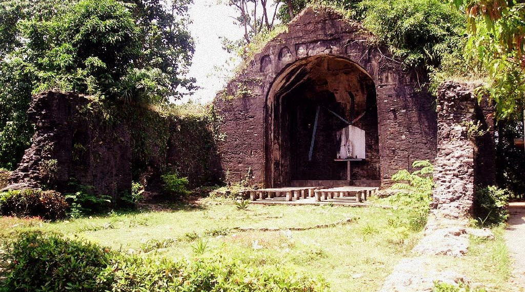 The Dominicans established Futol in 1604 as their first mission in Apayao. The church was built in 1684 and was designed as a fortress to protect the mission. It was abandoned in 1815 due to the ferocity of Isneg attacks. Related reading on the Pata and Pudtol ruins at Olympus Camedia (April 2006, FGD Series with SWP Partners in North Luzon). Slightly improved with Picasa.